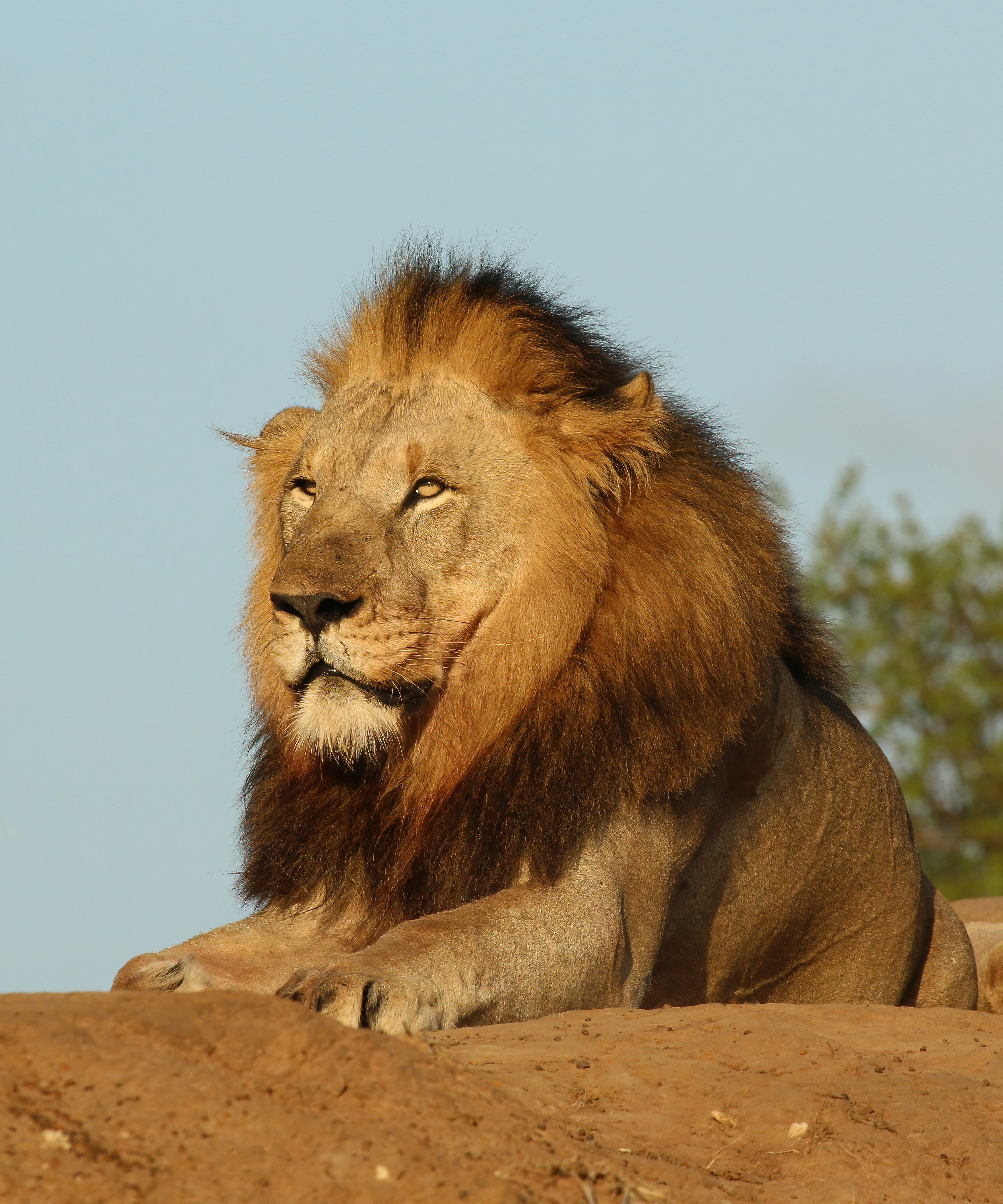 Lion (Panthera leo) male, six years old, Phinda Private Game Reserve, KwaZulu Natal, South Africa. Lions are the only cats that live in groups, which are called pride though there is one population of solitary lions. Pride is family units that may comprise anywhere from two to 40 lions including up to three or four males, a dozen or so females, and they're young. All of a pride's lionesses are related, and female cubs typically stay with the group as they age. Young males eventually leave and establish their own pride by taking over a group headed by another male.